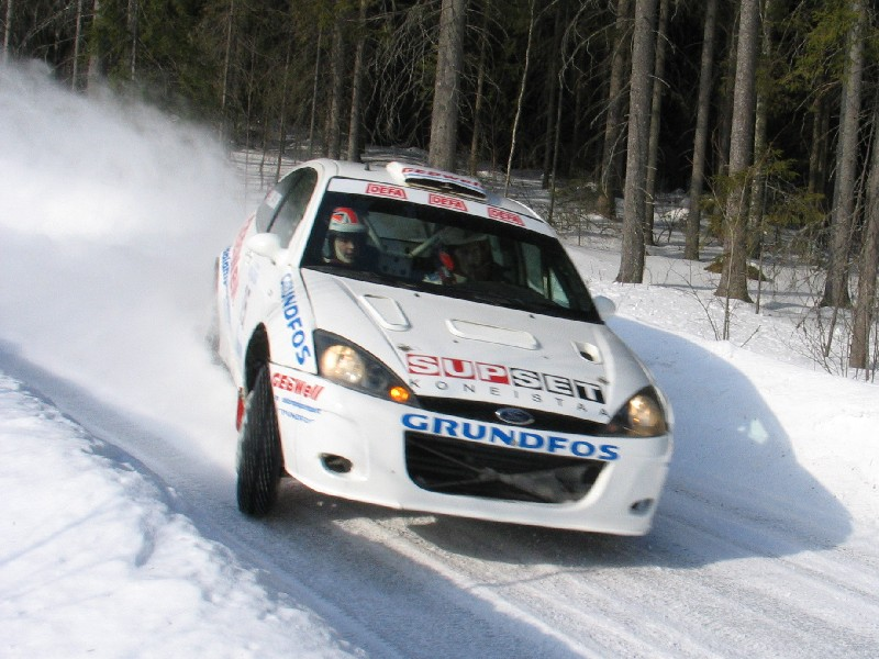 Matthew Wilson driving his Ford Focus RS WRC 01 at the 2005 Peurunka Rally.